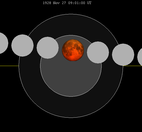 lunar eclipse chart of moon's path through the earth's shadow. thumb